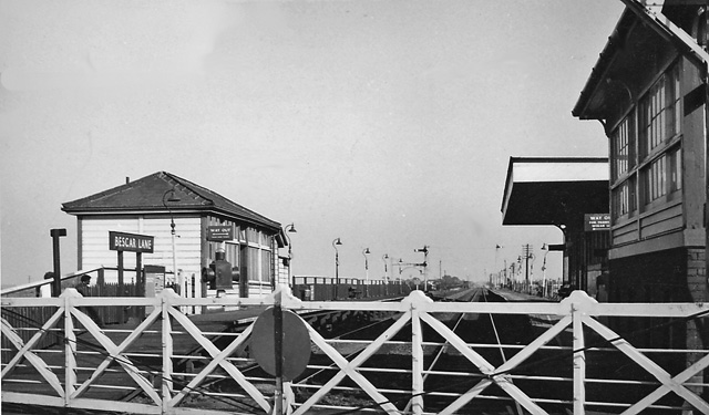 Bescar Lane Station. View eastward, towards Wigan and Manchester; Manchester - Wigan - Southport line.